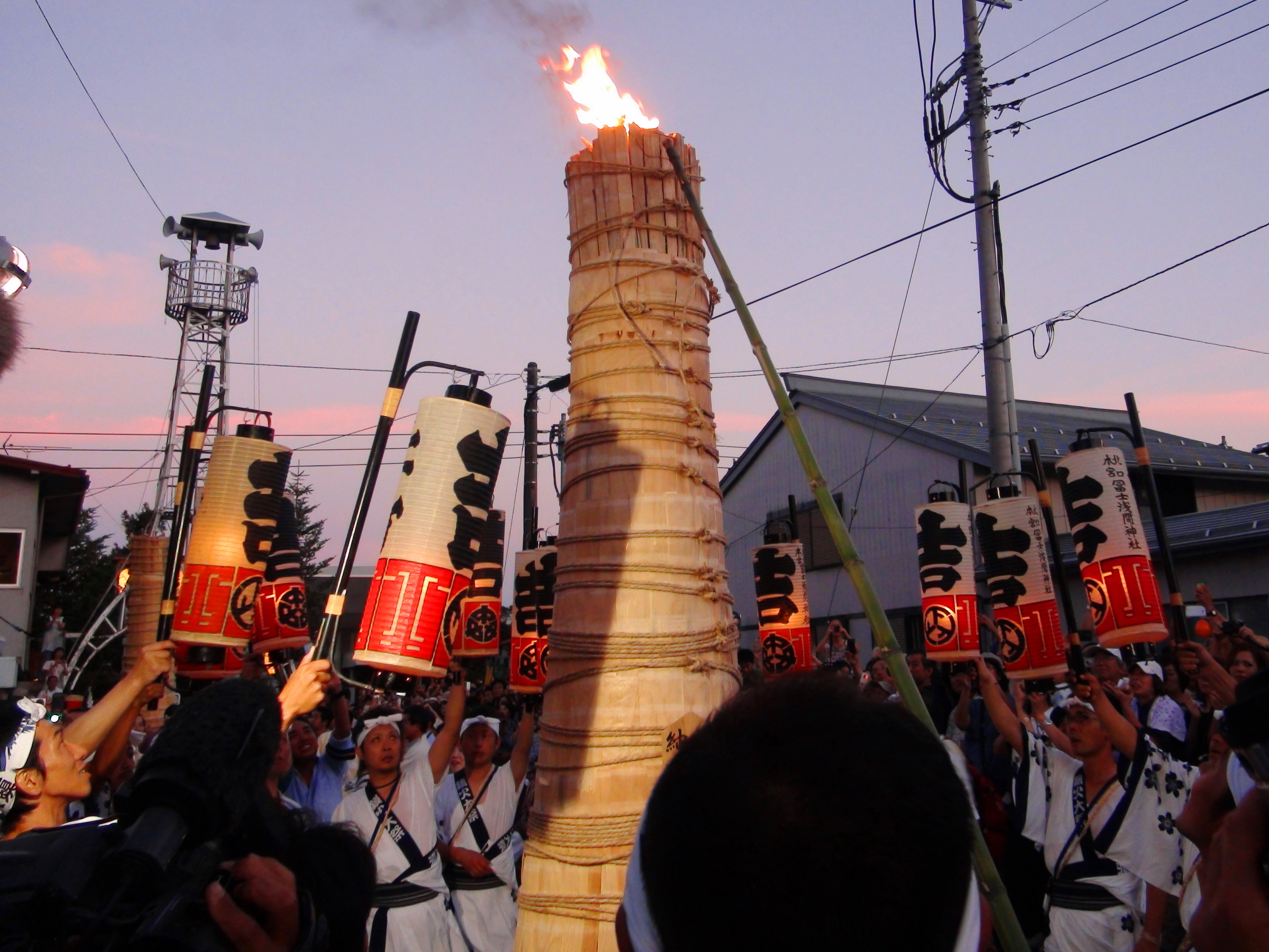 In the first torch ignition Otabisho, Yoshida Fire Festival